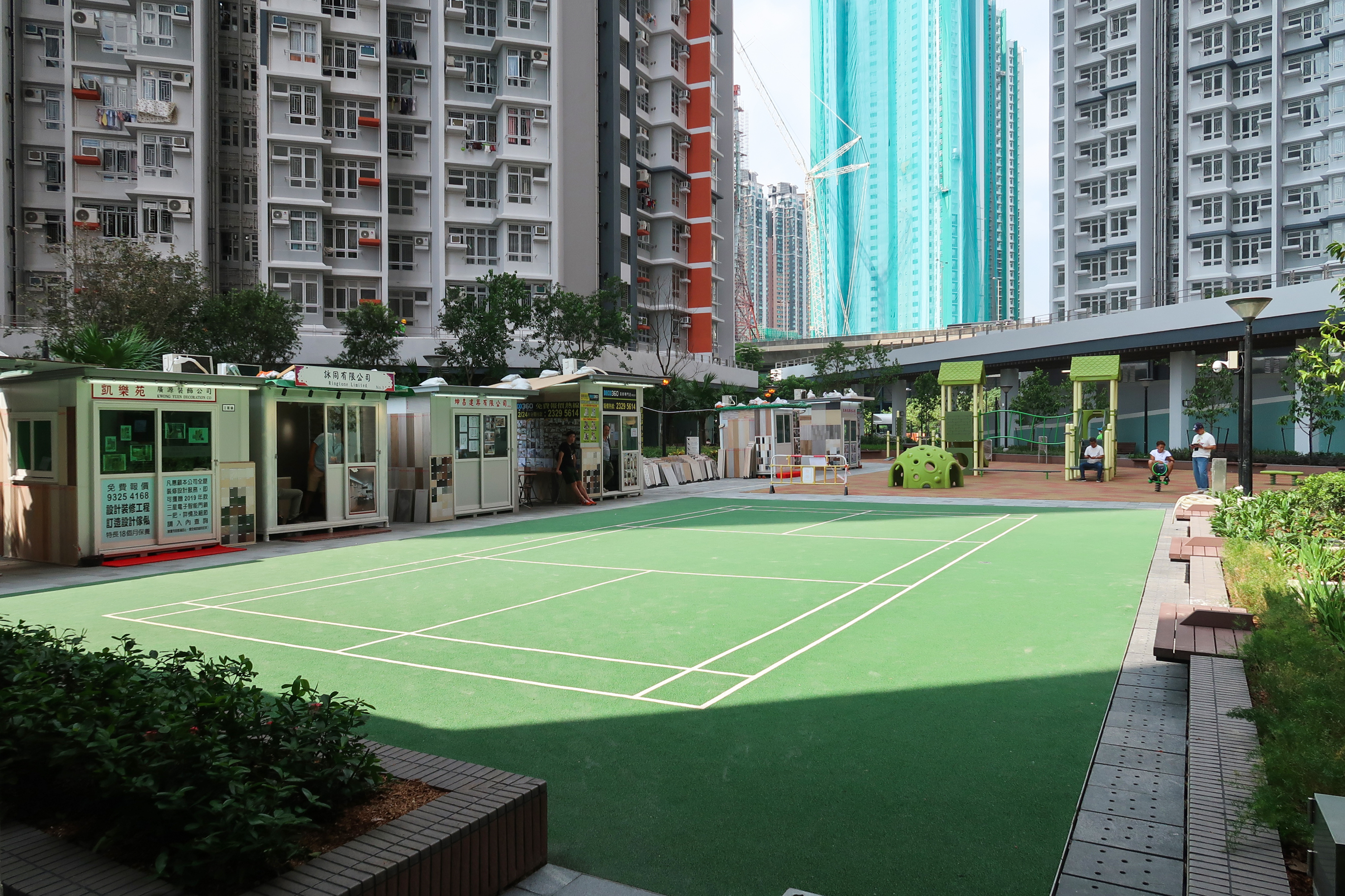 Hoi Lok Court Badminton Court